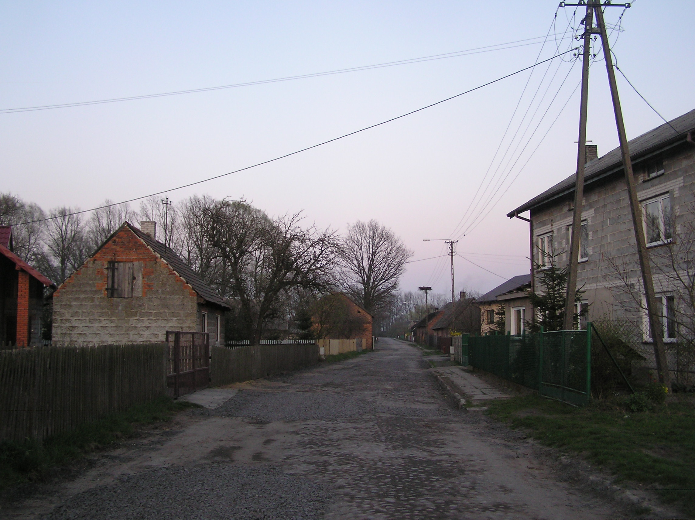 Złoczew (Poland, Łódź Voivodeship, Sieradz County), Starowiejska Street